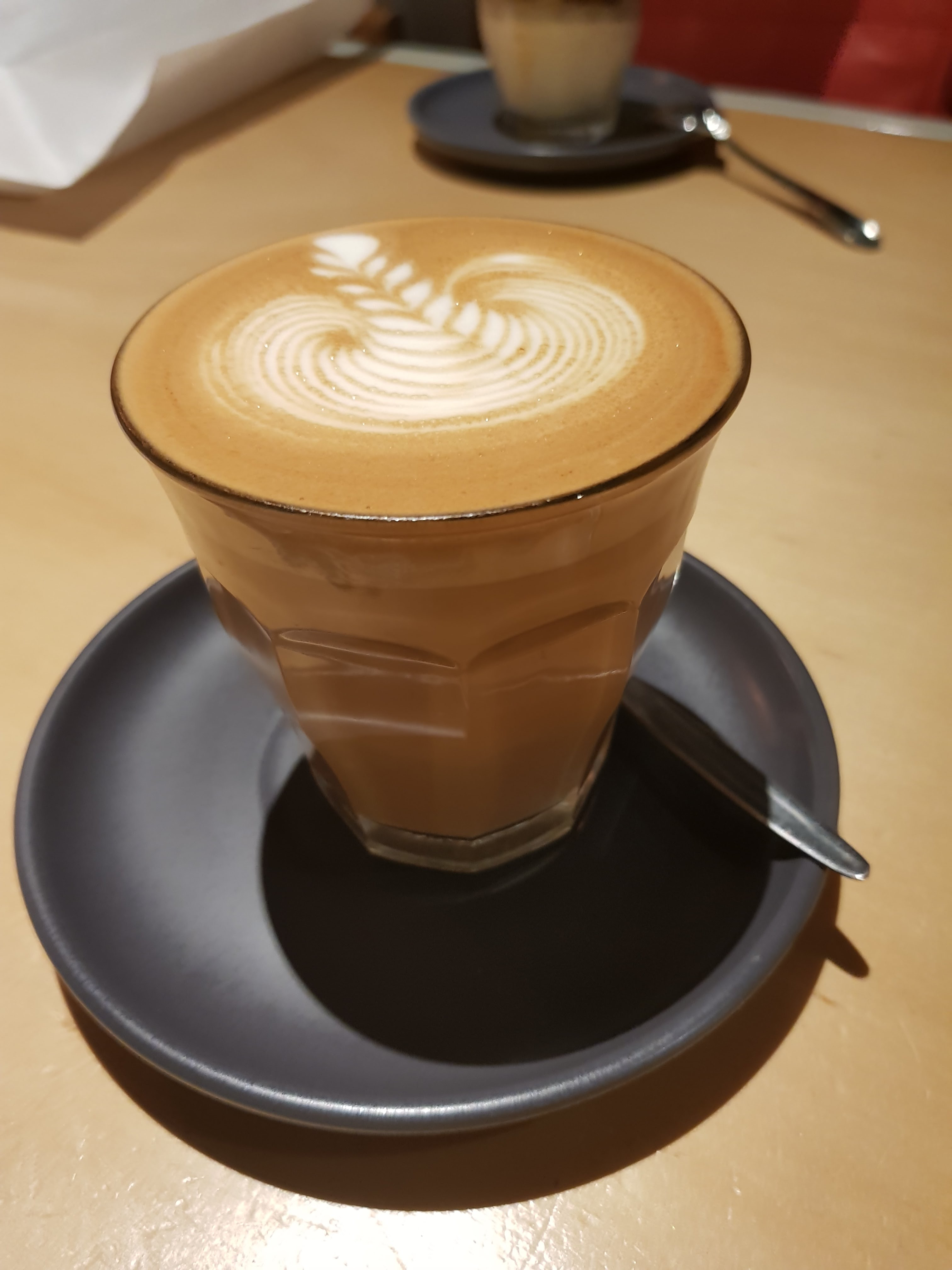 Latte